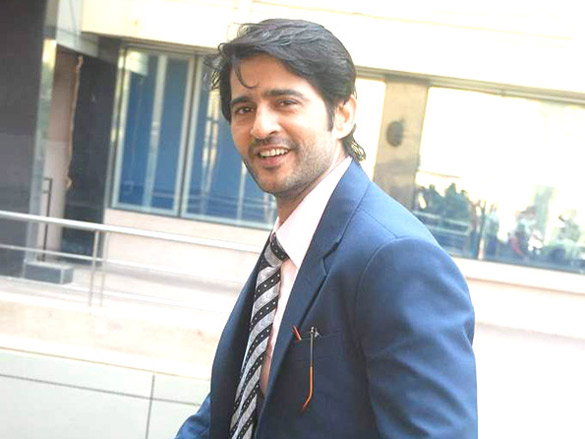 Hiten tejwani pavitra rishta